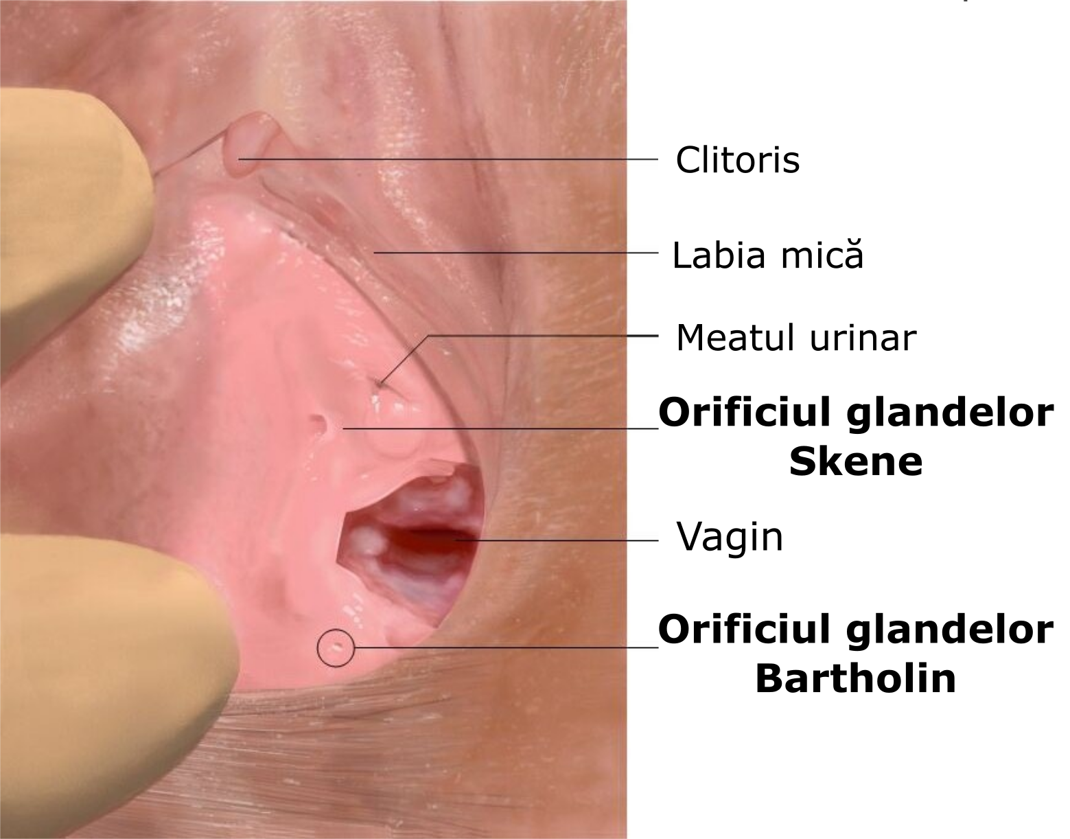 Skenes und Bartholin's glands